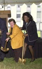 Ground breaking of the Advanced Measurement Laboratories of the National Institute of Standards and Technology (NIST). From left to right, NIST Director Raymond Kammer, Montgomery County Executive Douglas Duncan, Senator Paul Sarbanes, Secretary of Commerce William M. Daley, Senator Barbara Mikulski, and Under Secretary of Commerce for Technology Dr. Cheryl L. Shavers.